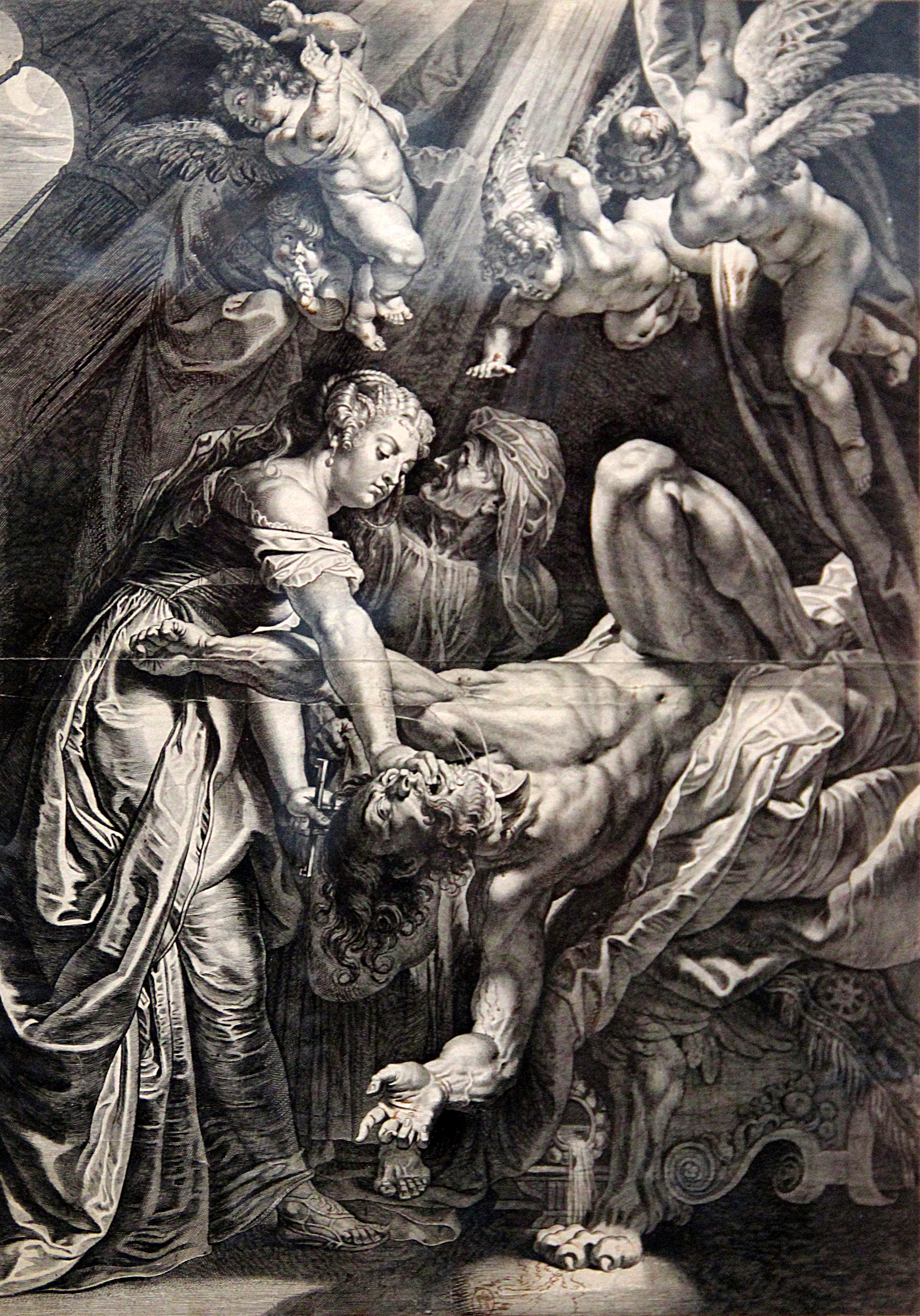 "Judith Beheading Holofernes", chisel (H. 54.5 cm. L 37.8 cm) by Cornelis Galle made ​​around 1610 to 1620, owned by the National Library of France, Ref: Réserve CC-34 (J)-FT 4. Photograph taken at the temporary exhibition Europe Rubens at the Louvre-Lens.